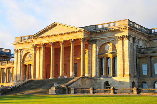 Stowe House